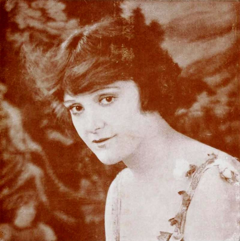 American actress Ann Murdock, from the cover of the November 17, 1917 Exhibitors Herald.